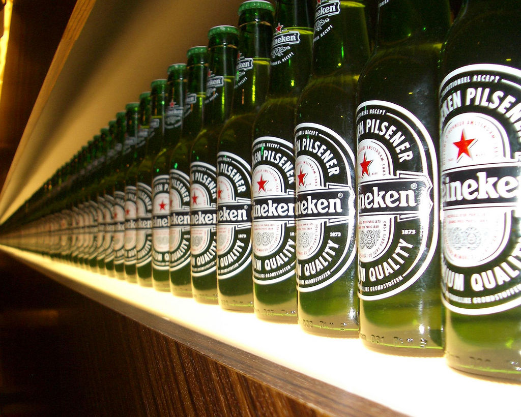 This is a photograph I took at the Heineneken Experience in Amsterdam. Author andybryant.